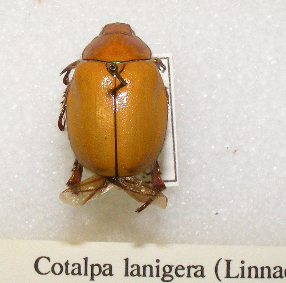 Cotalpa lanigera adult from the Texas A&M University Insect Collection